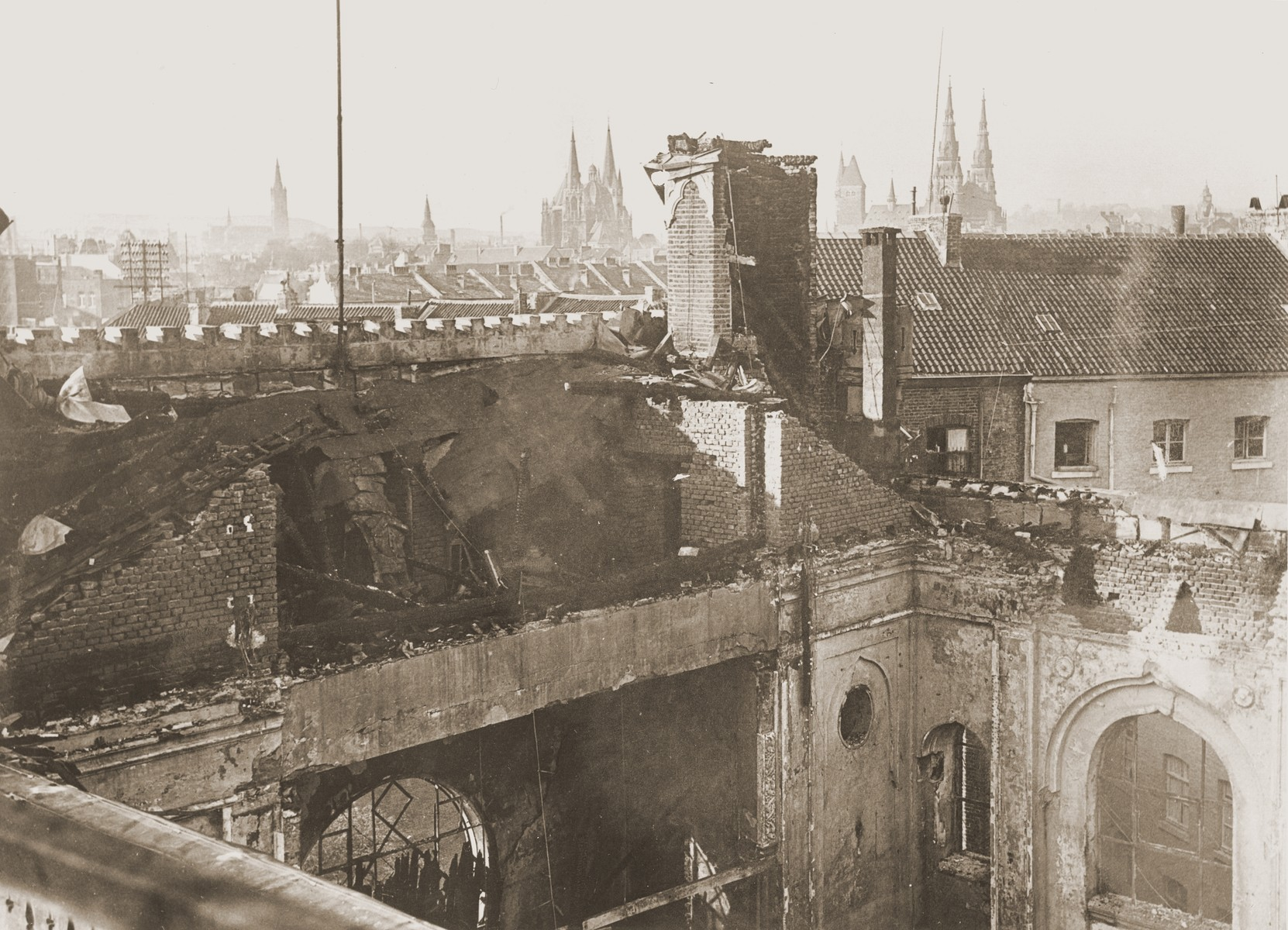 see title